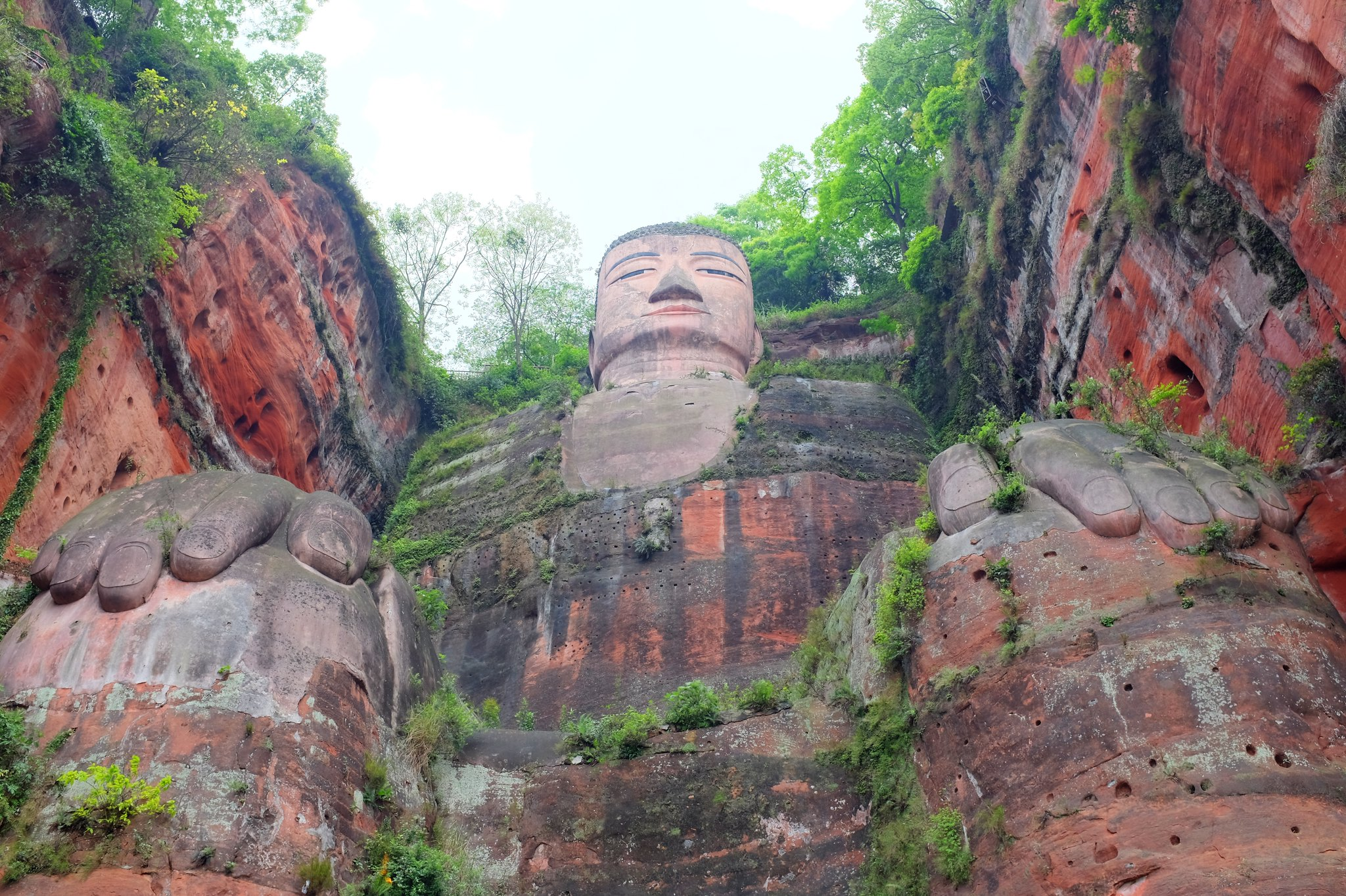 Given permission for commercial use by Min Zhou on Flickr